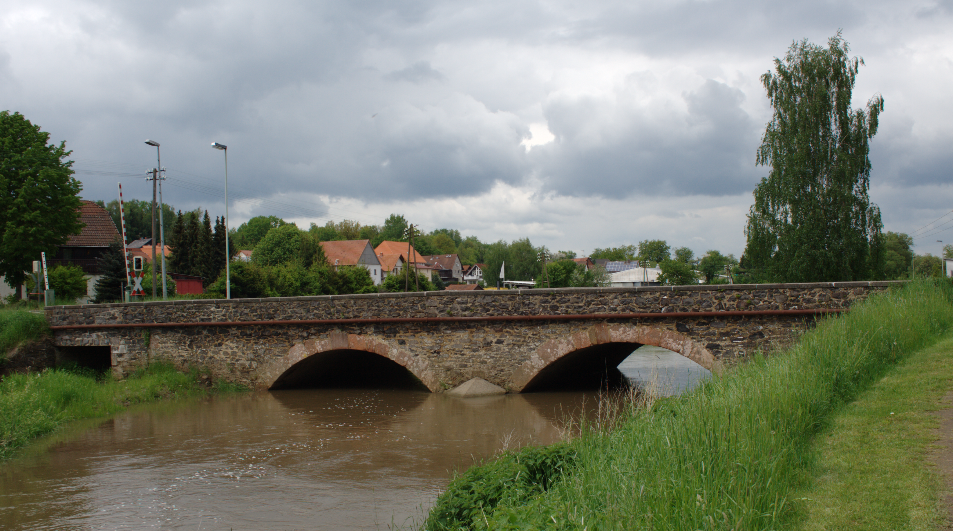 High water level of the Seenbach under bridge in Mücke Merlau Schlossgasse, Hesse, Germany